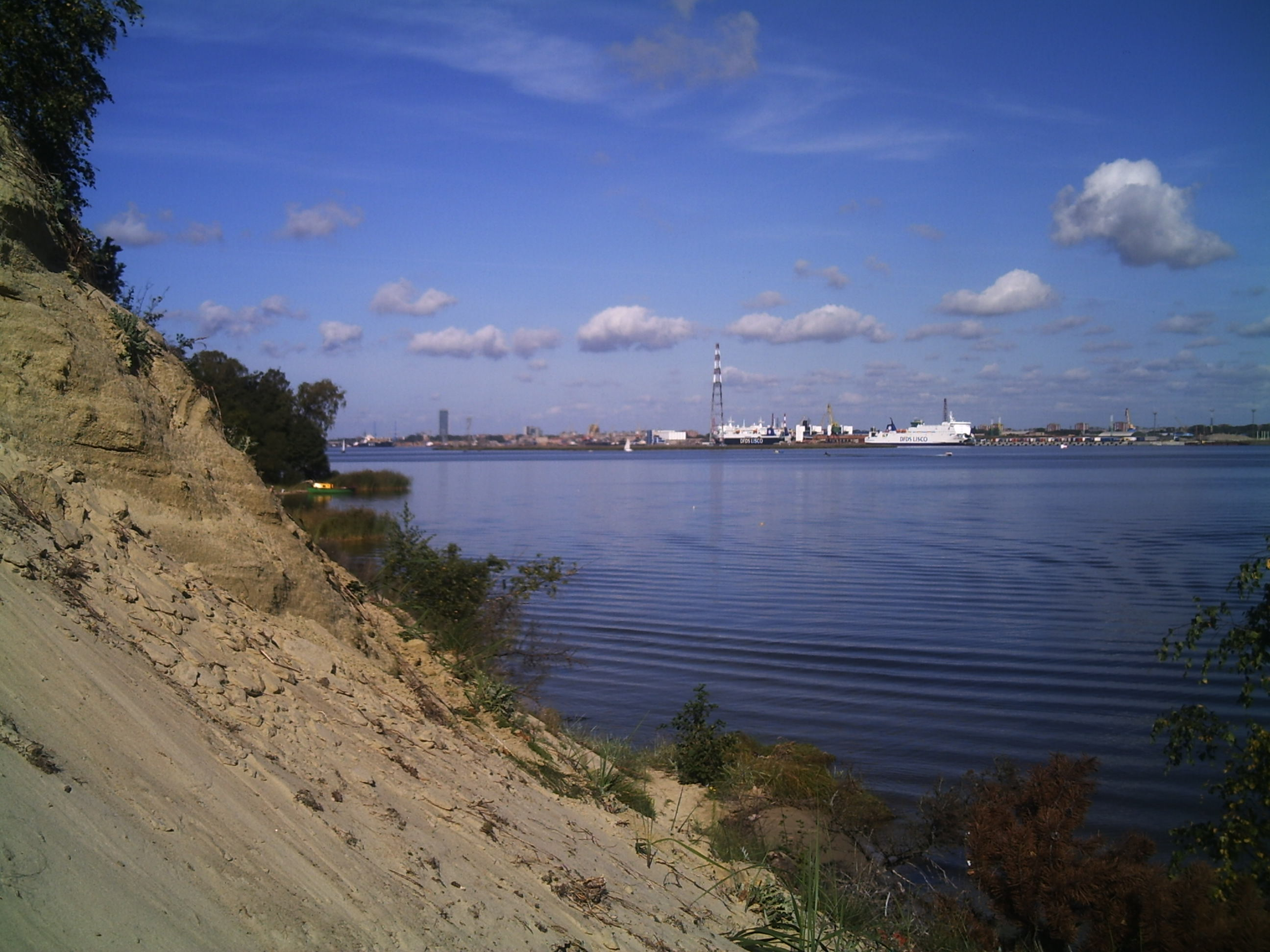 View of Klaipėda from Smiltynė